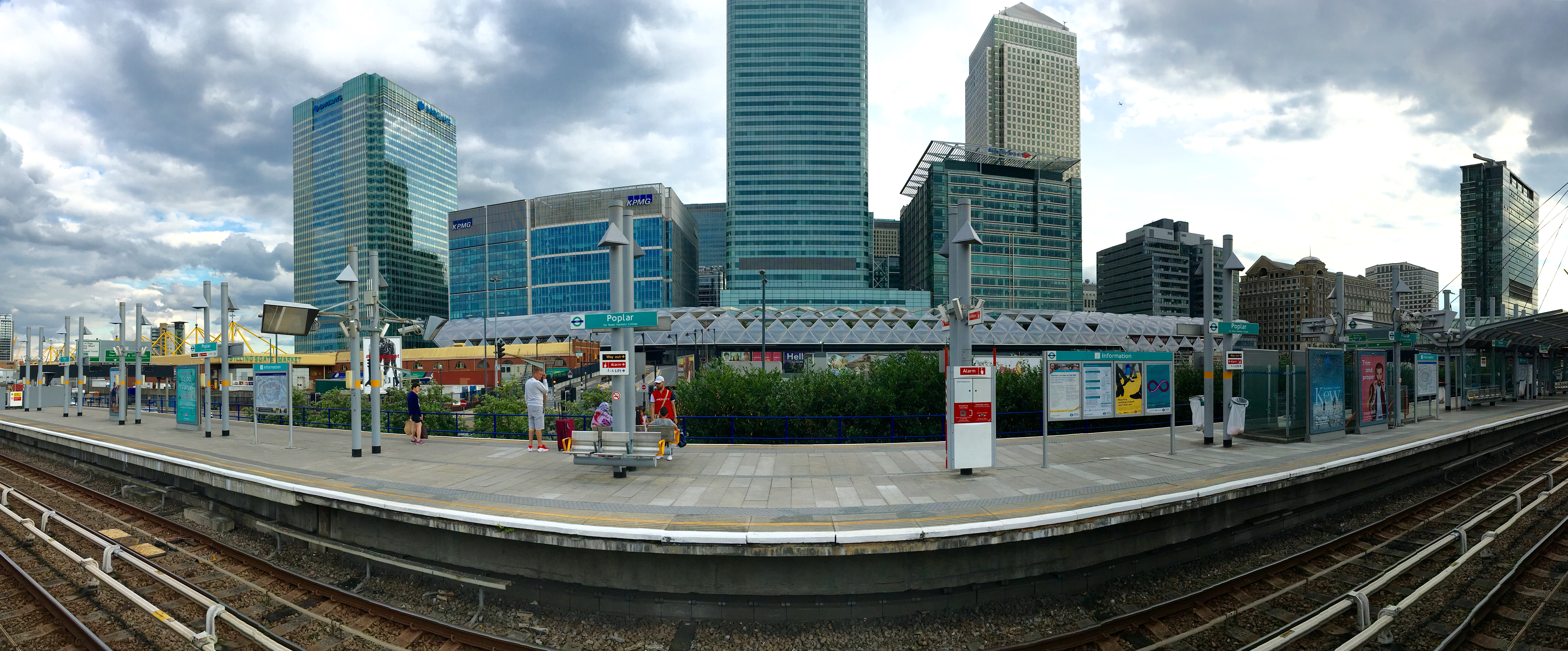 Poplar DLR station's panorama (view towards Canary Wharf), 2016